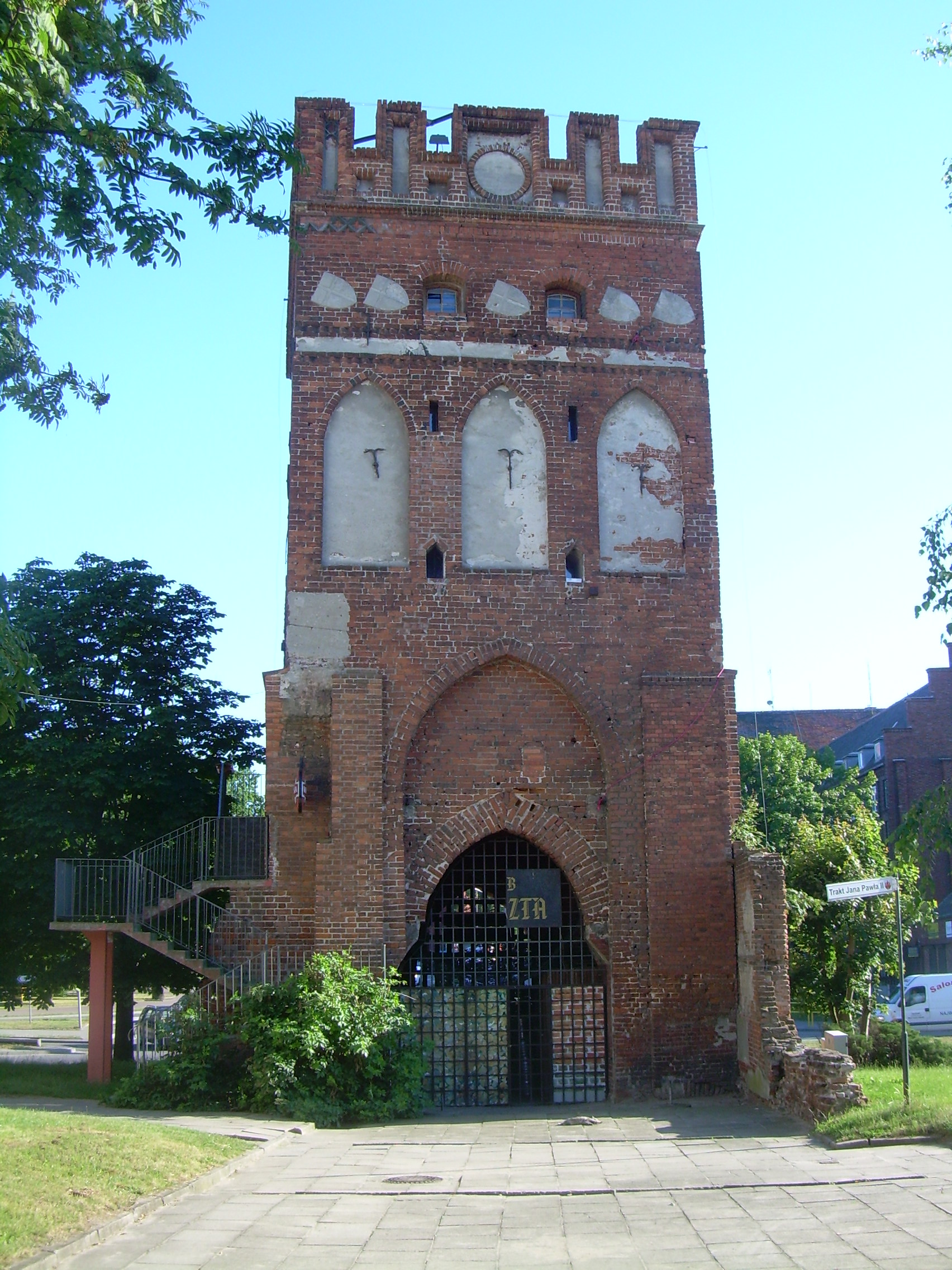 Malbork Mariacka Gate.